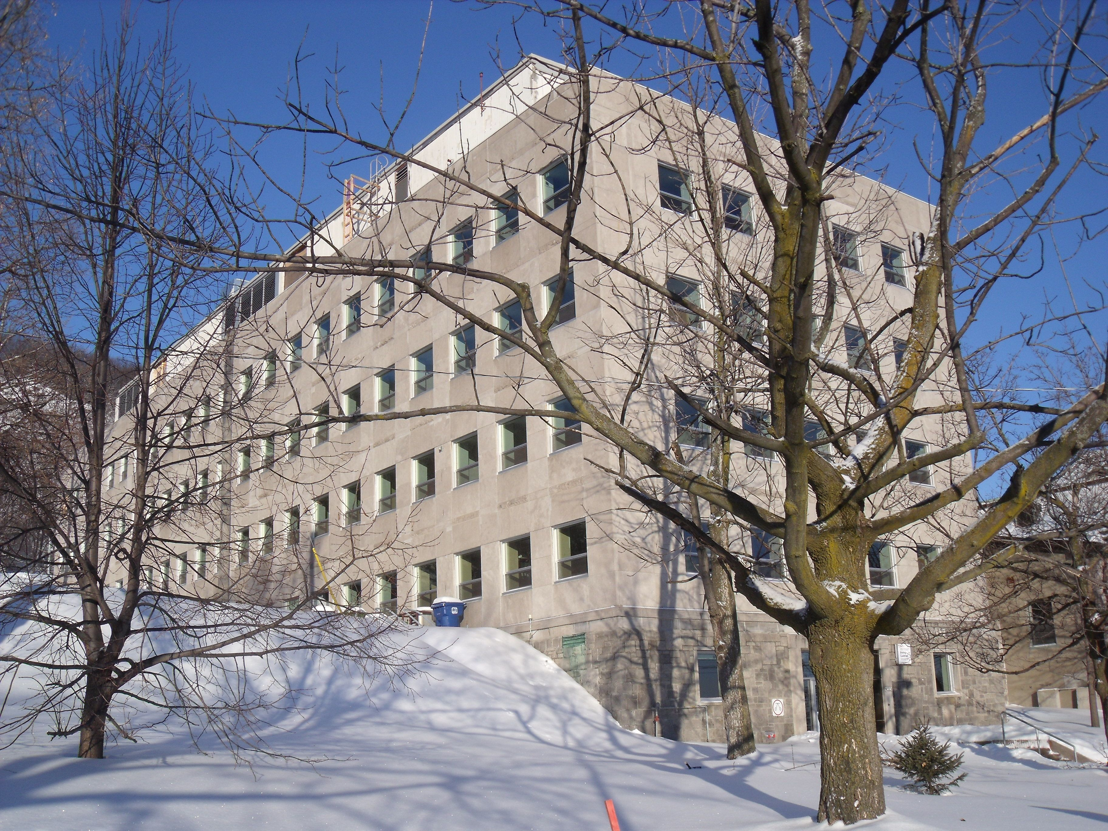 Irving Ludmer Psychiatry Research and Training Building, 1033 Pine Avenue West, Montreal, Quebec, Canada.